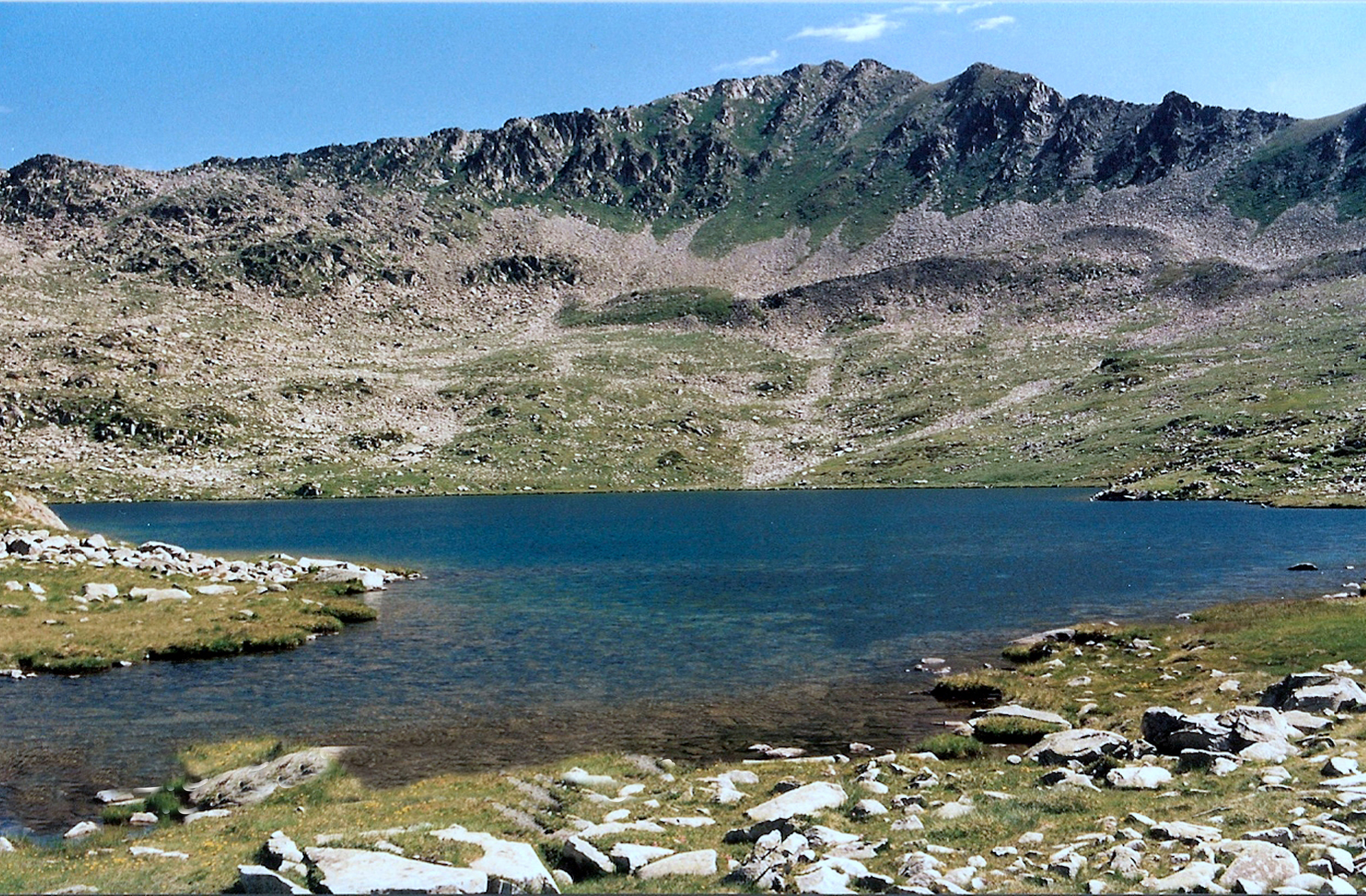 The Marimanya's peak and the Rosari's lake This is a a photo of an emblematic summit in Catalonia, Spain, with id: CE-261062006